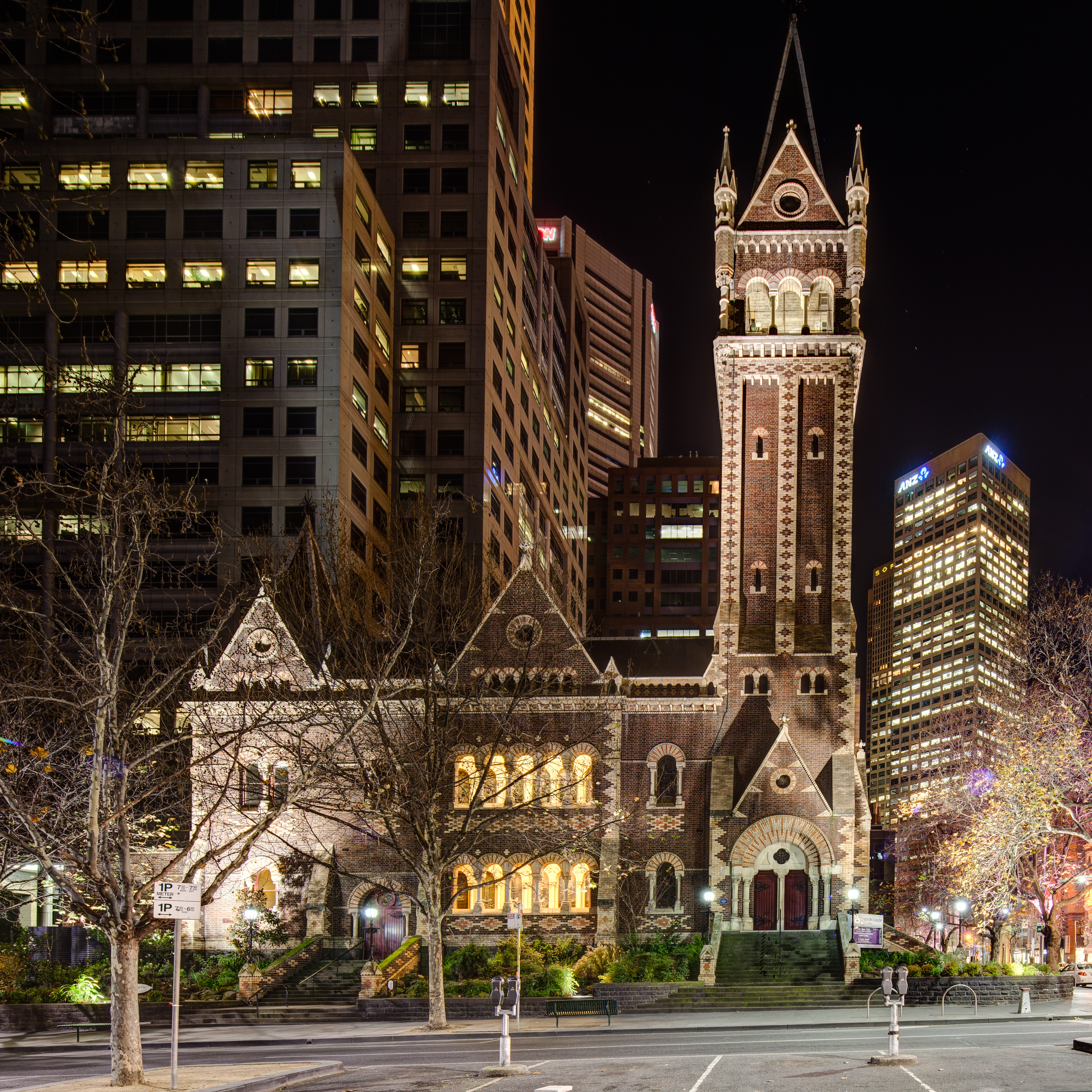 St Michael's Uniting Church in central Melbourne, Australia, at night.